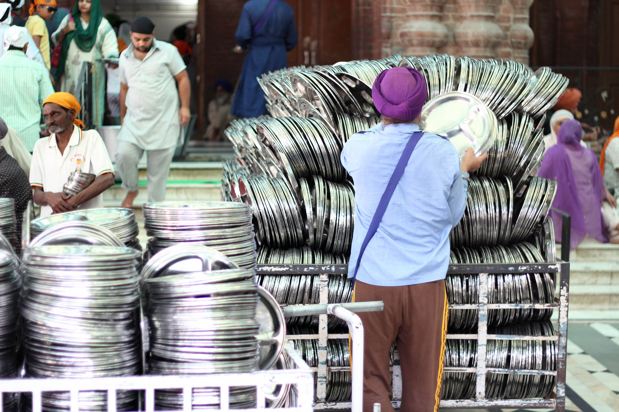 Langar Plates at Sri Darbar Sahib Amritsar